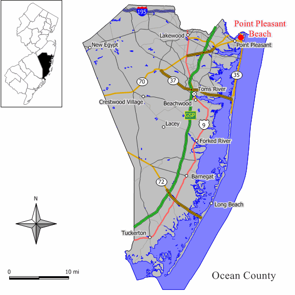 Locator map of Point Pleasant Beach in Ocean County, New Jersey